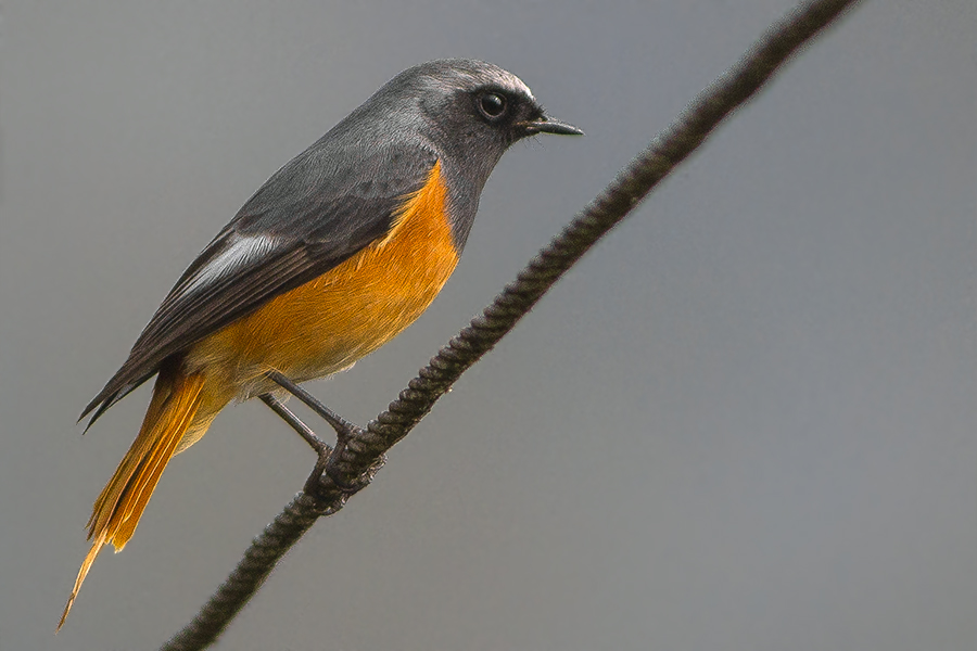 The species Hodgson's Redstart had been photographed from Khangchendzonga Biosphere Reserve in West Sikkim, India on 17.02.2016 during the birding trip of GoingWild.